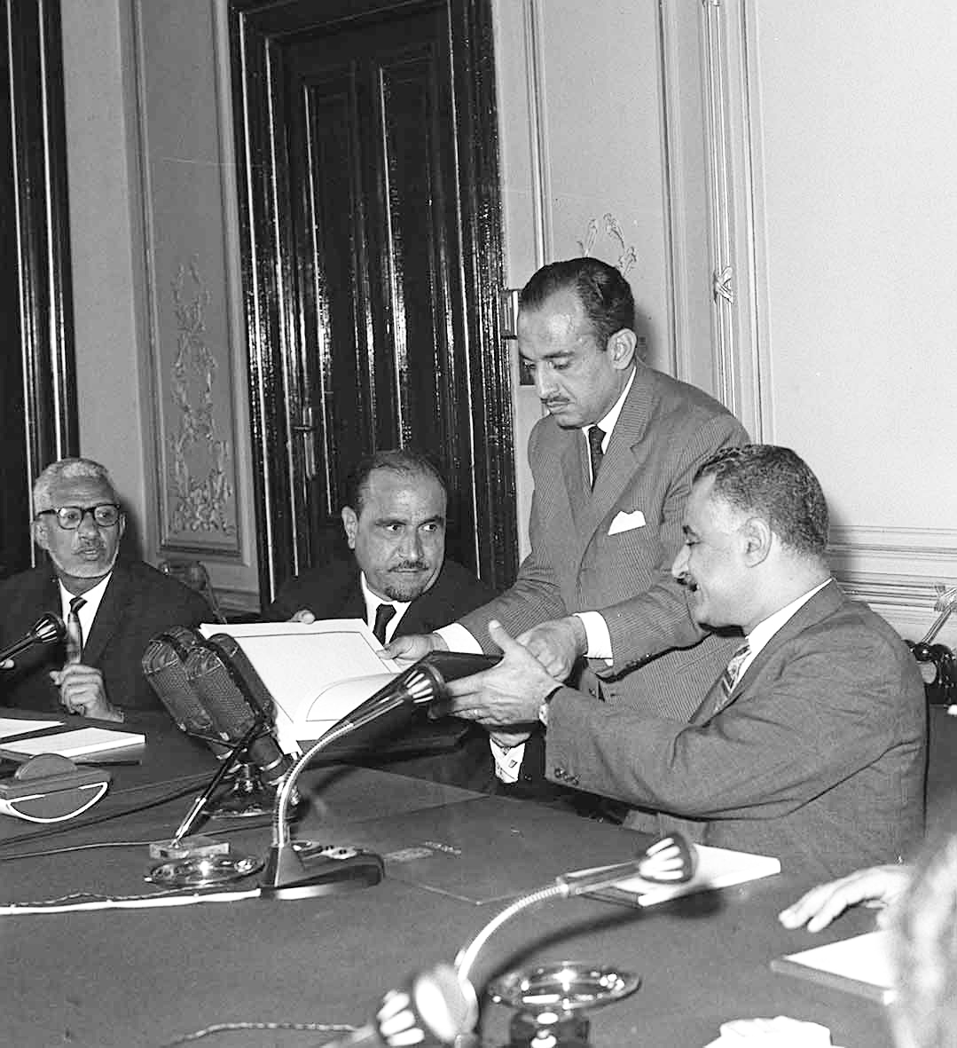 Agreement between Yemen represented by President Abdullah al-Sallal and Egypt headed by Abdel Nasser about the gradual merger of both states in a new United Arab Republic